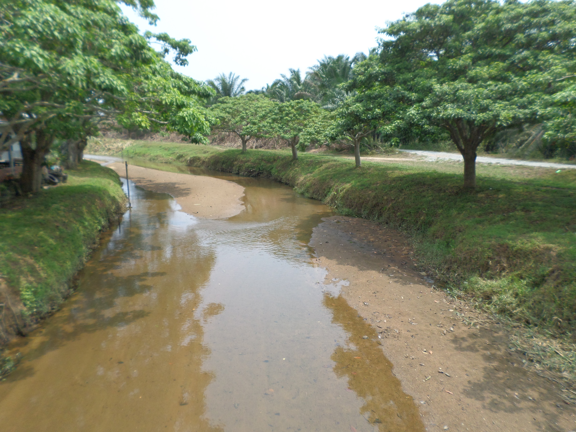 Bukit Gantang River, Larut, Matang and Selama, Perak, Malaysia